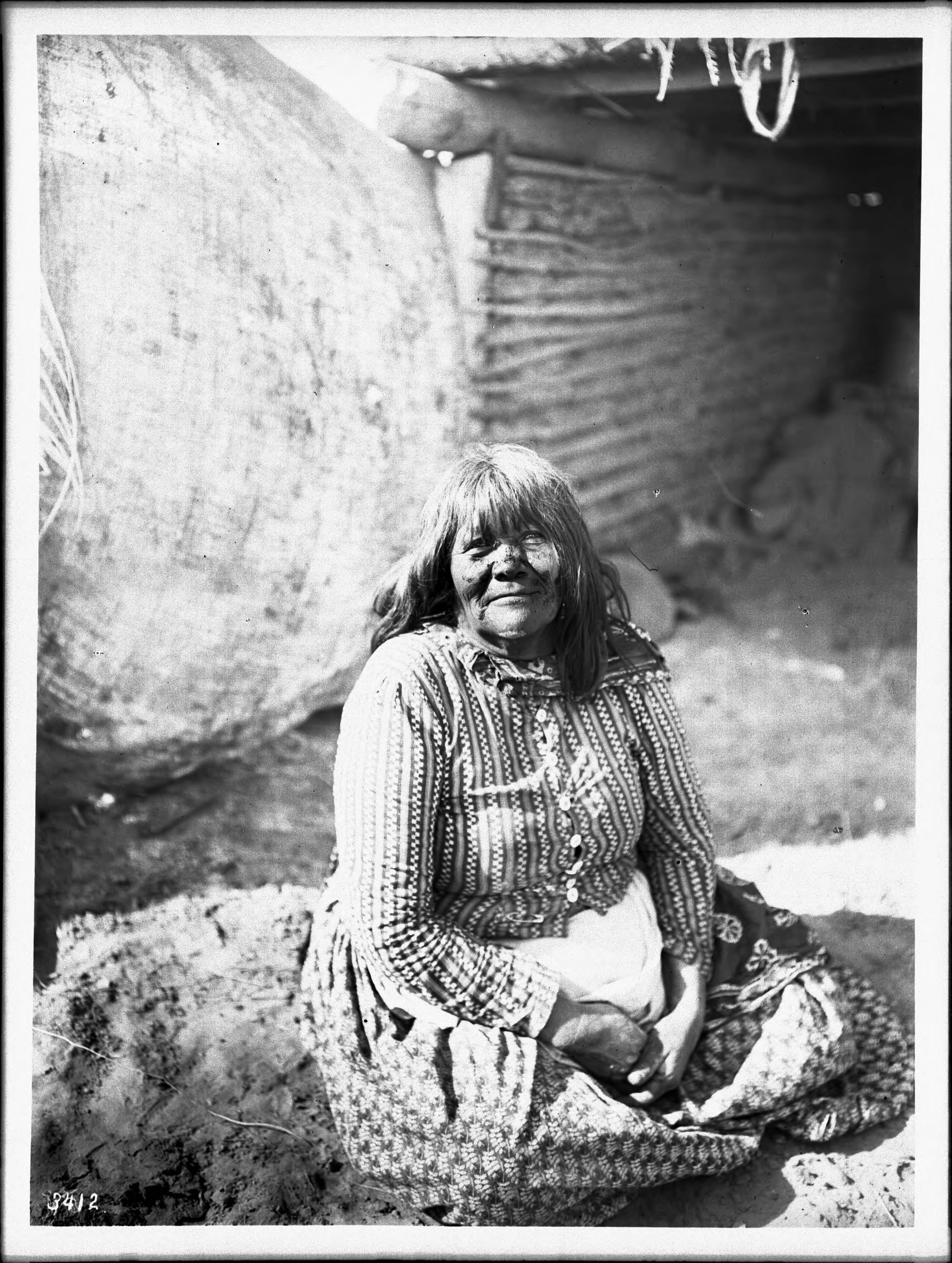 Mojave Indian woman sitting in front of a ramada, ca.1900 Photograph of a Mojave Indian woman sitting on the ground in front of a ramada, or open thatch-covered shelter, ca.1900. She wears a print plaid skirt and striped shirt. She sits crosslegged with her hands in her lap. A large cloth or blanket attached at left to the ramada provides shade. Call number: CHS-3412 Photographer: Pierce, C.C. (Charles C.), 1861-1946 Filename: CHS-3412 Coverage date: circa 1900 Part of collection: California Historical Society Collection, 1860-1960 Type: images Part of subcollection: Title Insurance and Trust, and C.C. Pierce Photography Collection, 1860-1960 Repository name: USC Libraries Special Collections Format: glass plate negatives Microfiche number: 1-173- Archival file: chs_Volume95/CHS-3412.tiff Repository address: Doheny Memorial Library, Los Angeles, CA 90089-0189 Geographic subject (country): USA Format (aacr2): 2 photographs : glass photonegative, photoprint, b&w ; 22 x 17 cm. Rights: Digitally reproduced by the USC Digital Library; From the California Historical Society Collection at the University of Southern California Subject (adlf): housing areas Project: USC Accession number: 3412 Repository Contributing entity: California Historical Society Date created: circa 1900 Publisher (of the digital version): University of Southern California. Libraries Format (aat): photographic prints; photographs Legacy record ID: chs-m16040; USC-1-1-1-13931 Access conditions: Send requests to address or e-mail given. Phone (213) 821-2366; fax (213) 740-2343. Subject (file heading): Indians -- Mojave Subject (lcsh): Indians of North America; Mohave Indians; Clothing and dress; Women; Dwellings Subject: Mojave Indians